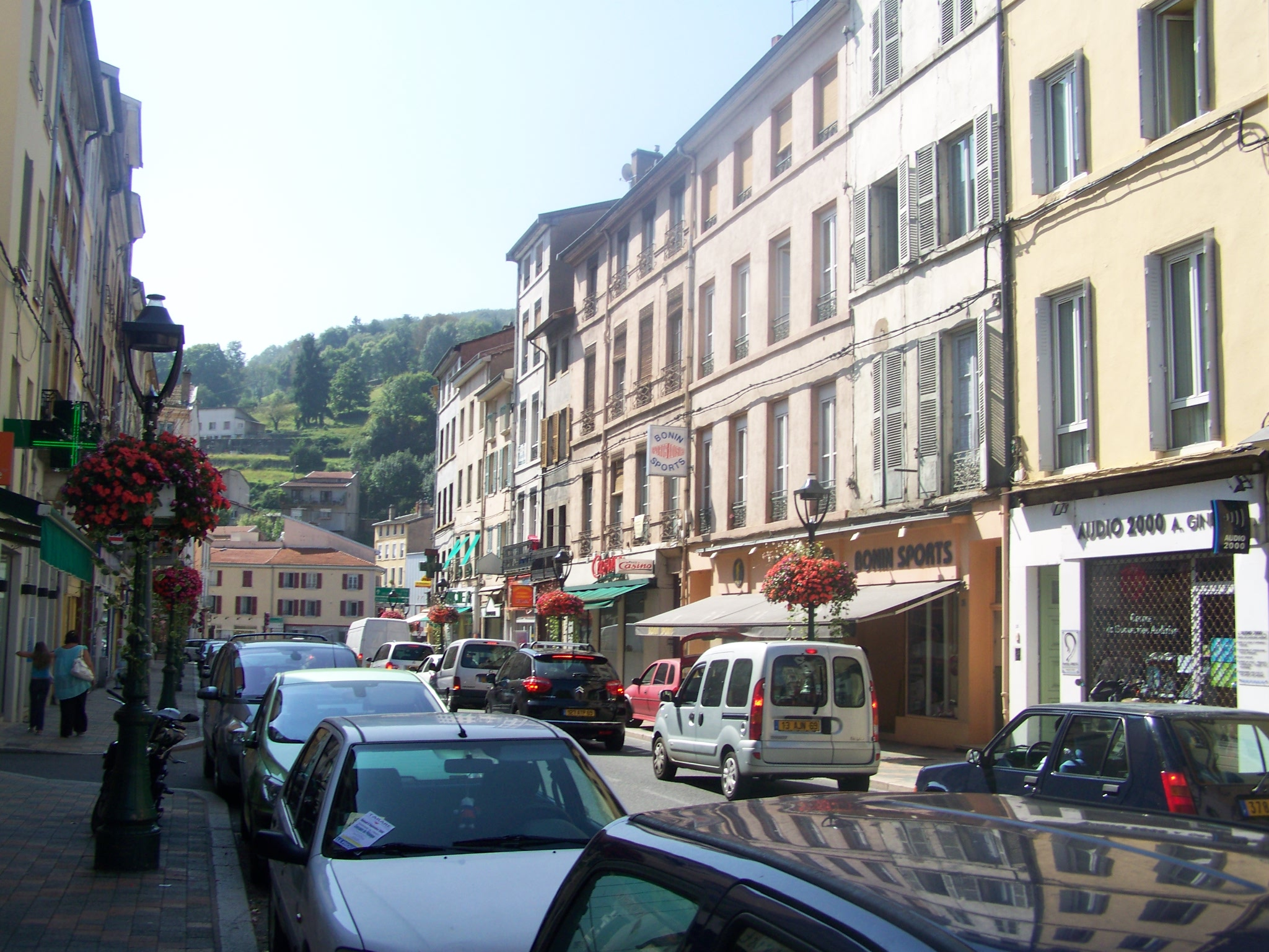 City of Tarare downtown, in Rhône, France.